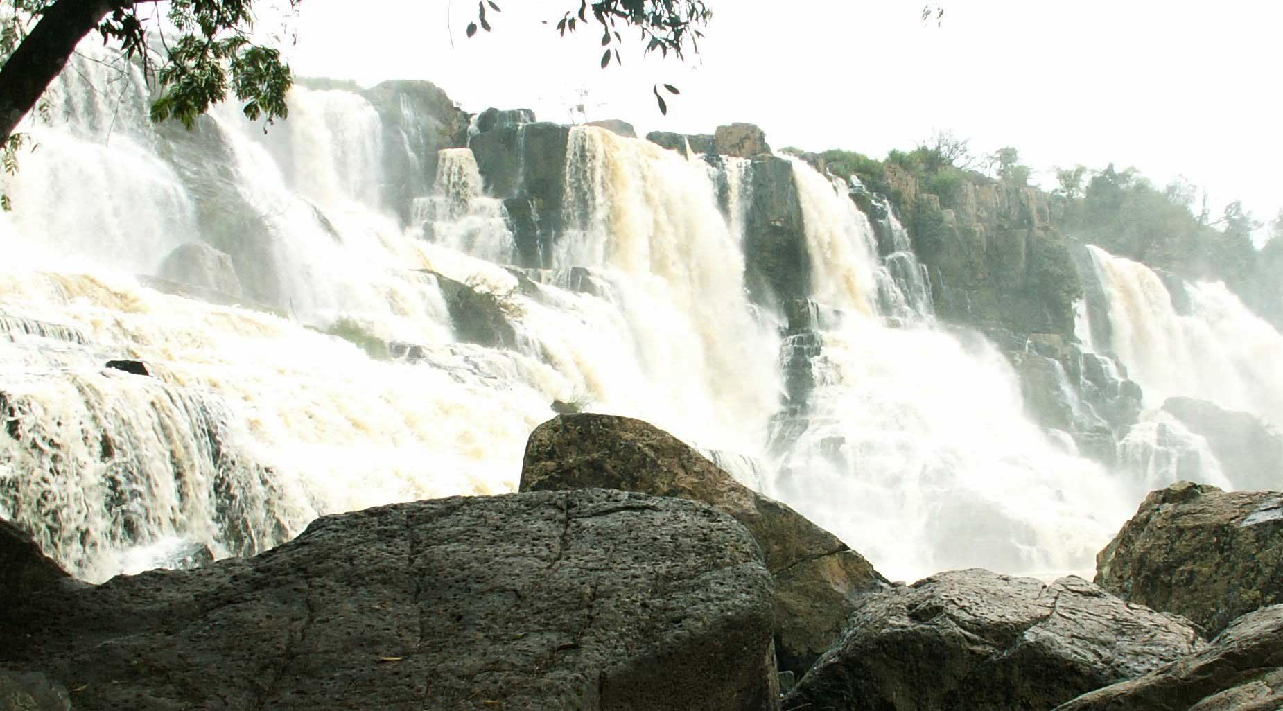 Pongour Waterfall